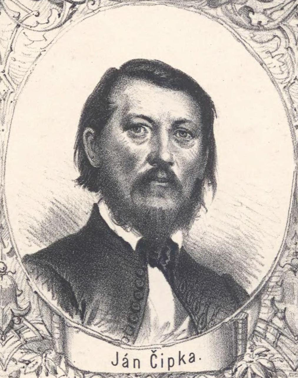 Portrait of Ján Čipka (1823 - 1902), Slovak lawyer and patriot. Picture cropped from a gallery of famous Slovaks.